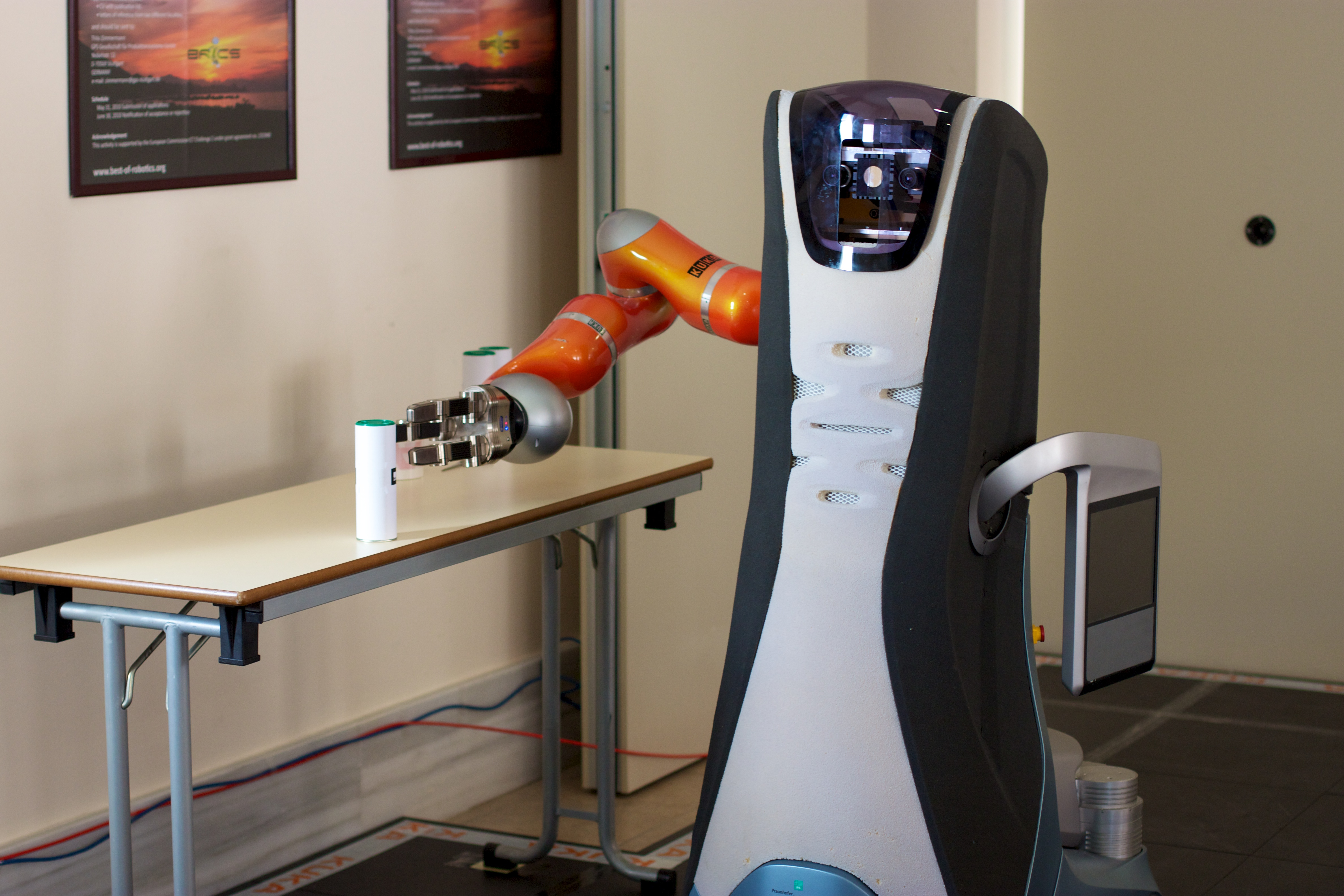 Care-O-Bot grasping an object on the table